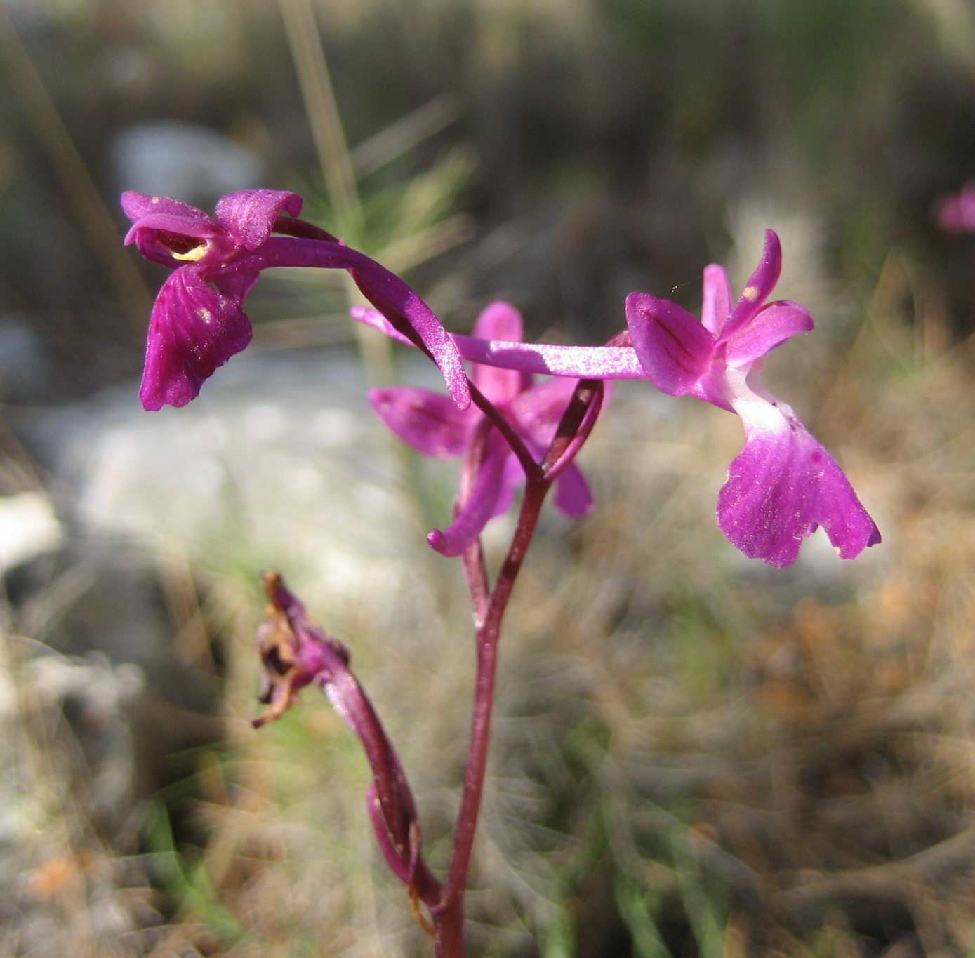 Orchis anatolica, Chios, Greece. Near Nea Moni